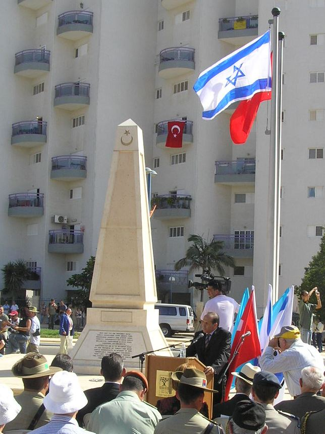 90th anniversary of the WW1 Battle of Beersheba: Ceremony at memorial for the fallen Ottoman soldiers - speach of the Turkish ambassador to Israel